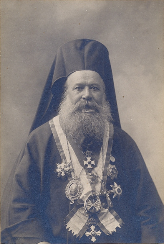 Avxentii Pelagoniiski